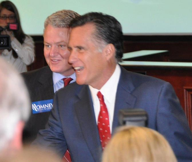 South Carolina State Treasurer Curtis Loftis campaigns with Gov. Mitt Romney during a September 2011 event in North Charleston, SC.